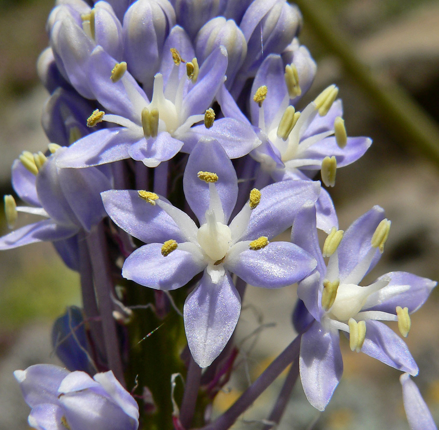 Scilla natalensis at the University of California Botanical Garden, Berkeley, California